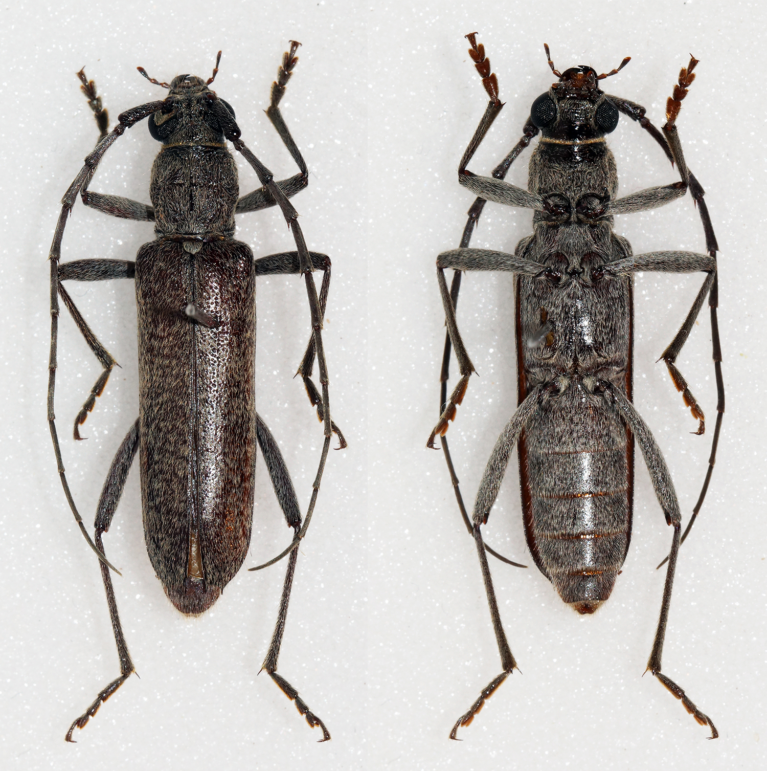 Knull,1934 Sex: Male Data: 11-07-14 - Box Canyon - Pima County - Arizona - USA Size: 26.2mm